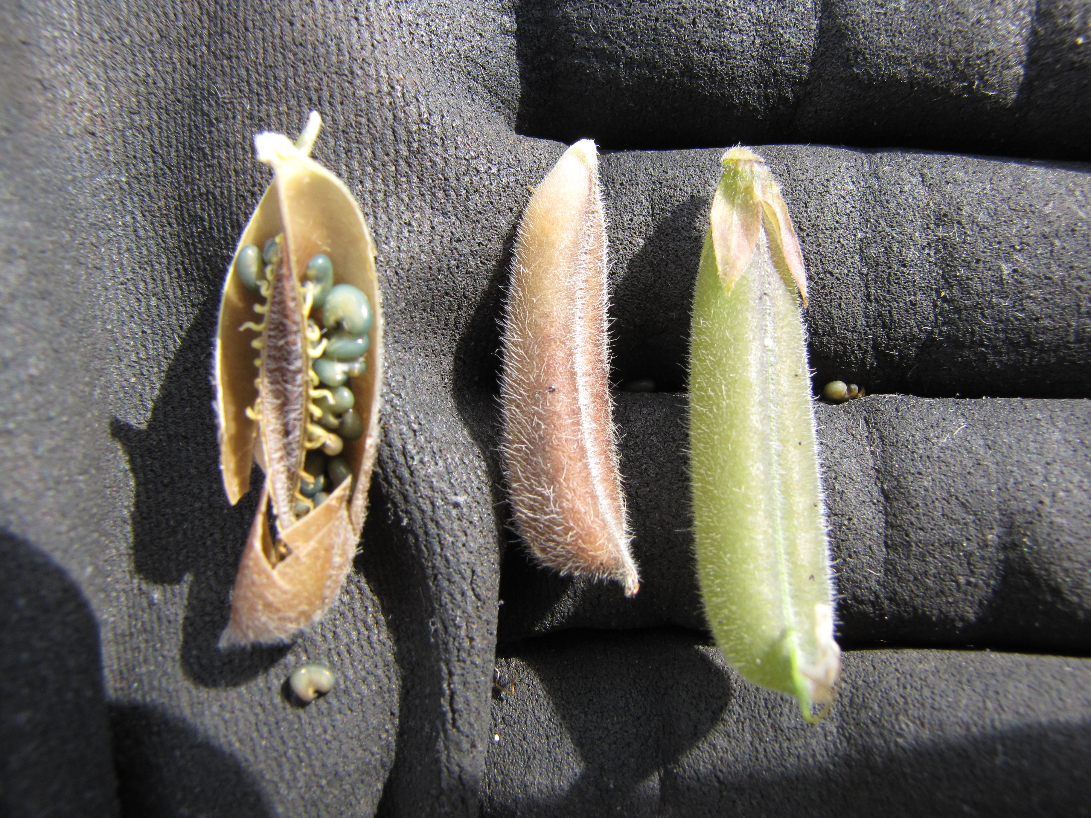 Crotalaria incana (Fuzzy rattle pod) Fuzzy pods and bluish seeds at Mokolea Pt Kilauea Pt NWR, Kauai, Hawaii. March 20, 2013 #130320-3453 Image Use Policy